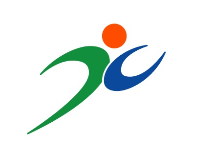 Flag of Fukutsu Fukuoka